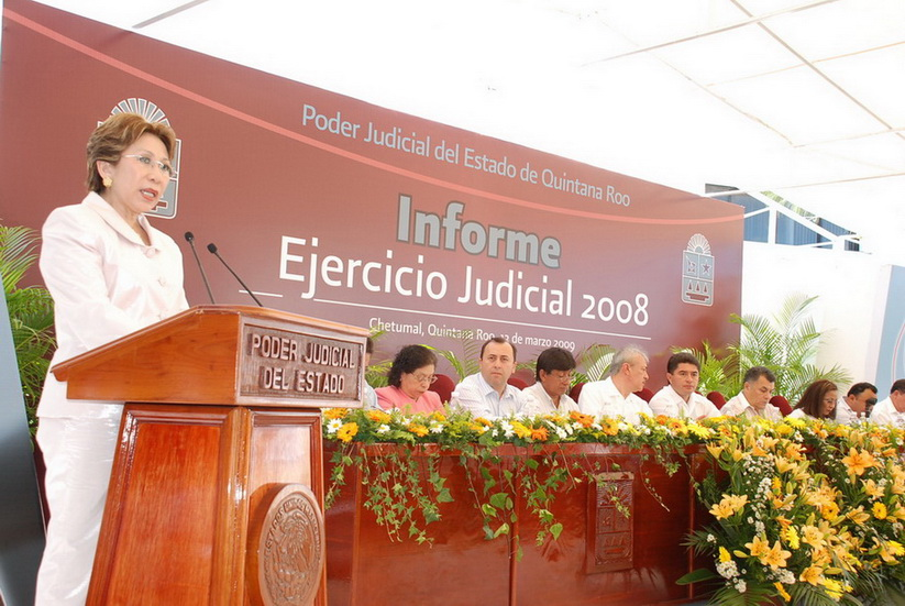 in a presentation again